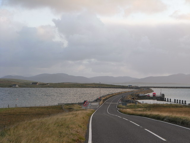 Causeway linking North Uist with Berneray